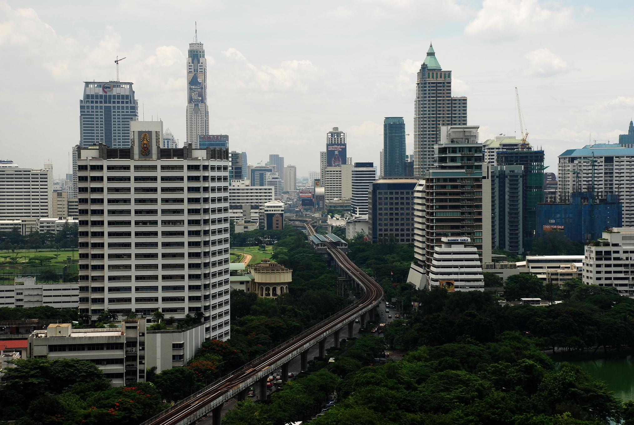 Aerial view of Rajdamri Road (Thanon Ratchadamri) from The Dusit Thani Hotel, Bangkok, Thailand.